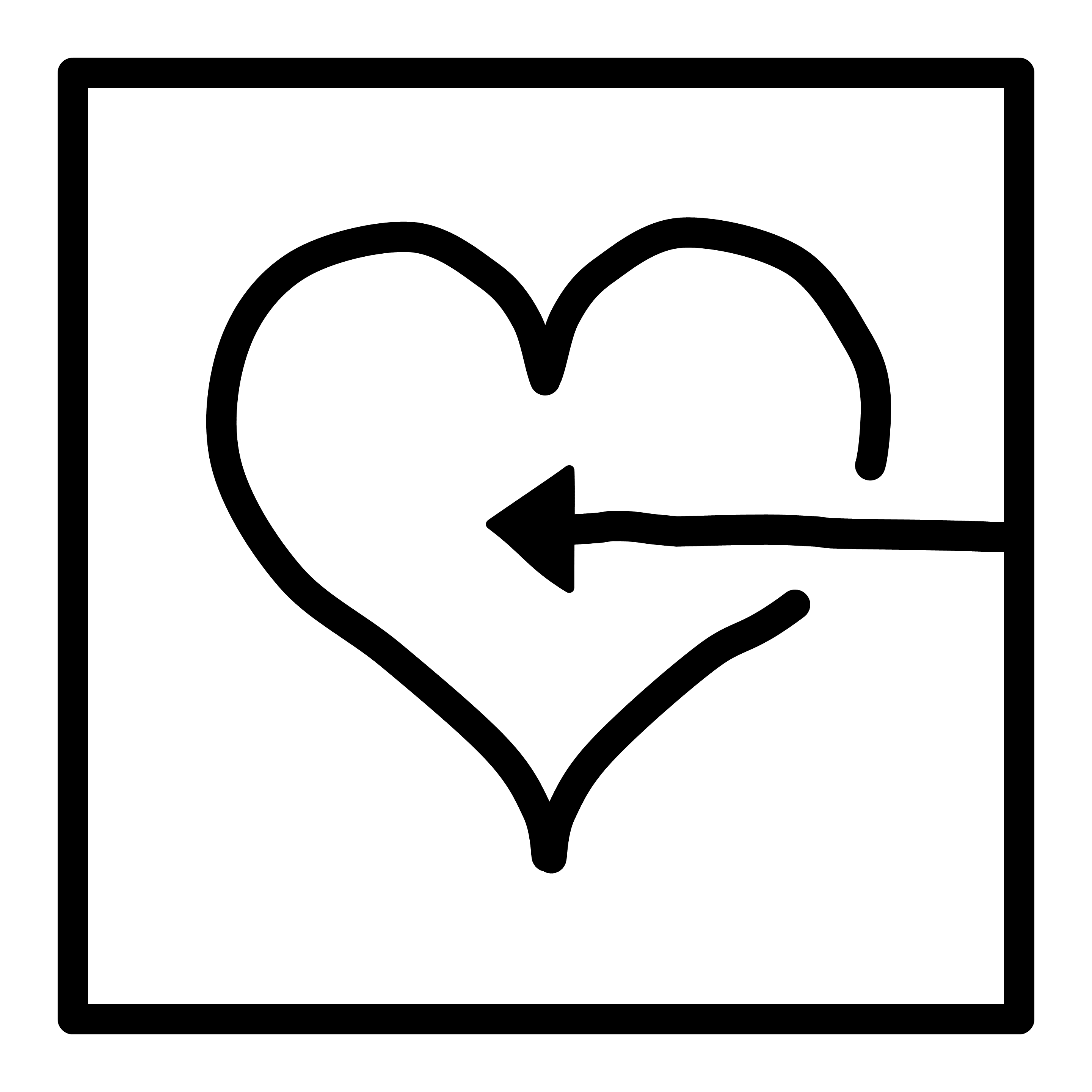 Public domain iconic symbol, digital realization done by me and donated to the public domain as well